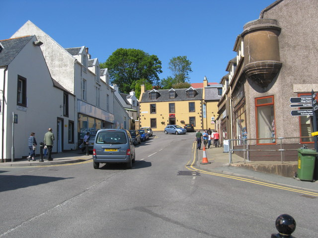 Bank Street, Port Righ (Portree)